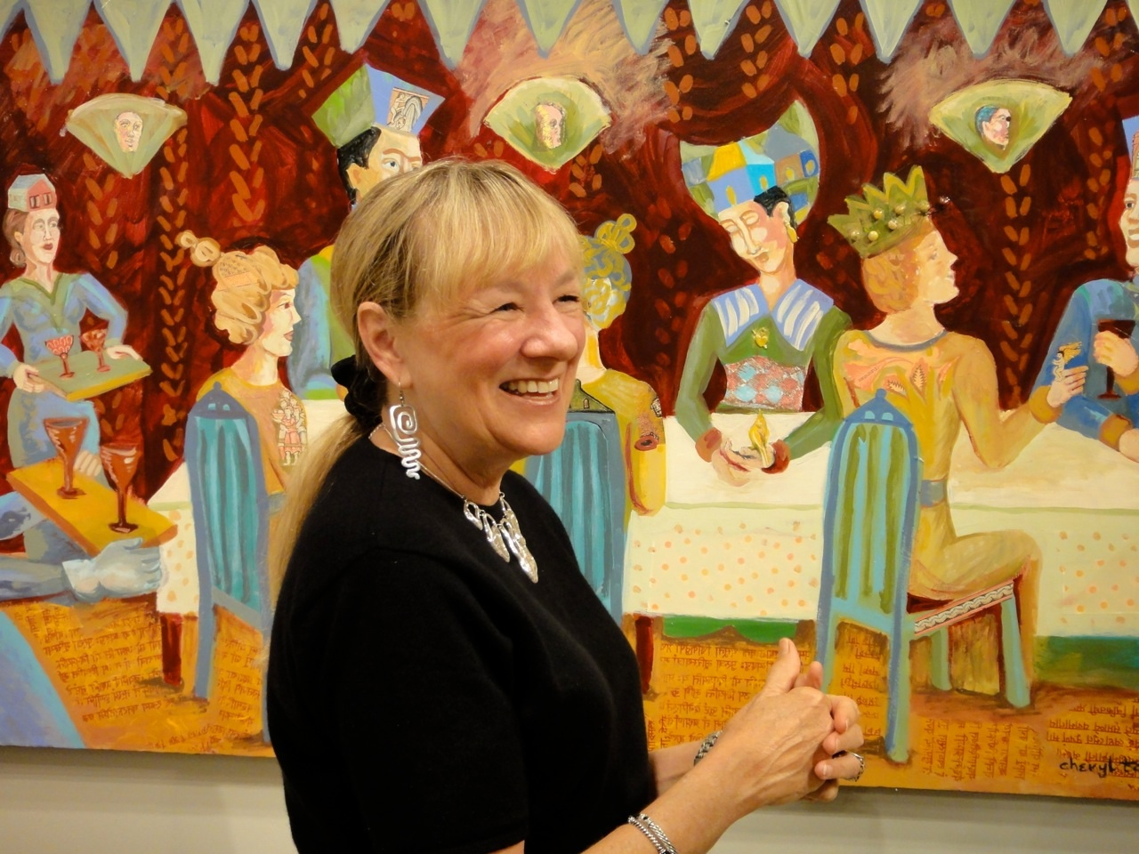 This is a photo of Cheryl Tall to be used on the Cheryl Tall wiki; Other information I am re-uploading it as the permission and license agreement has been sent by the owners.